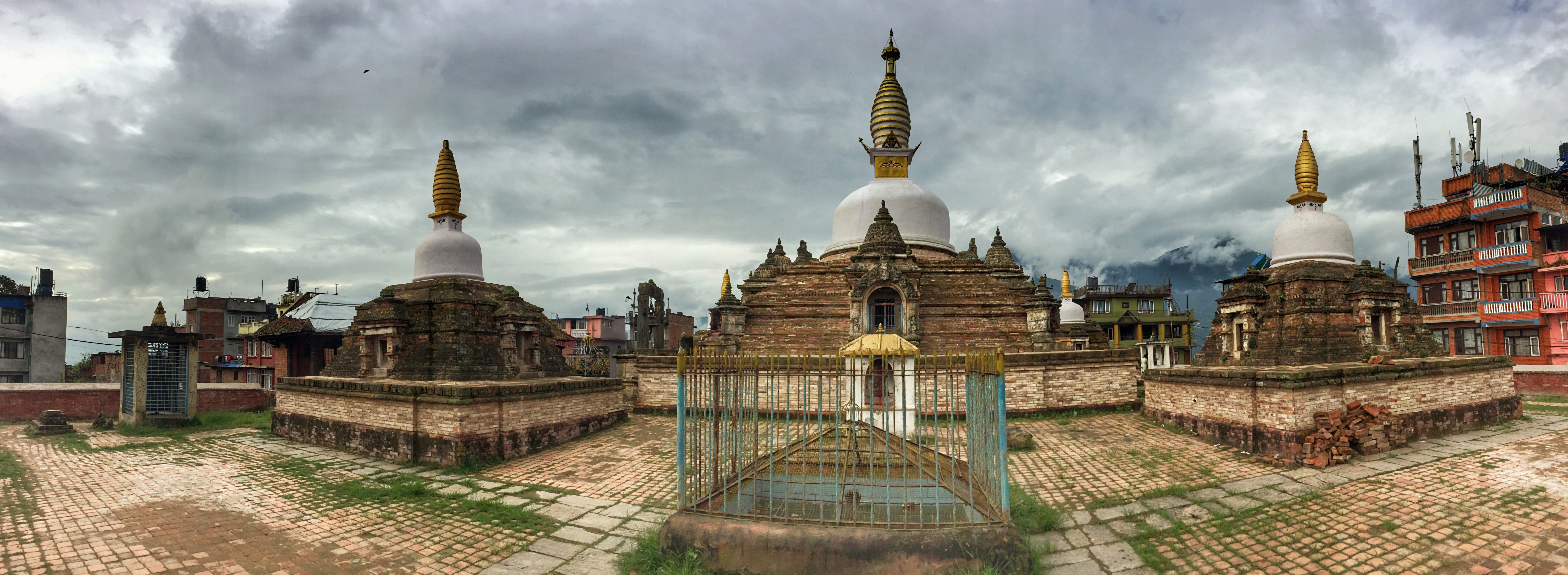 Chilancho, located at Kirtipur (Estd. in 1515 AD by Jagatpal Varma).A Buddhist shrine is situated on the southern hill. It is located in Kirtipur, Nepal. It was made in the medieval period. An inscription of Nepal Samvat 635 (Licchavi Period) is found in this Chaitya. Therefore, it is one of the most important historical stupas of this region.